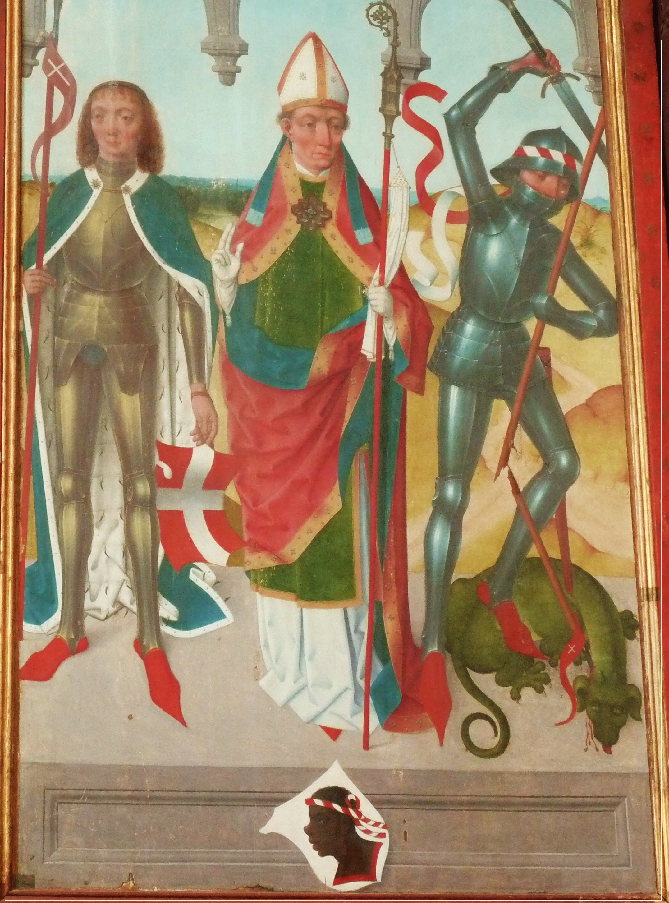 Saint Victor, Saint Nicholas, Saint George and the blackamoor, closed view of the altarpiece of the High Altar in the St. Nicholas' Church, Tallin (ES)